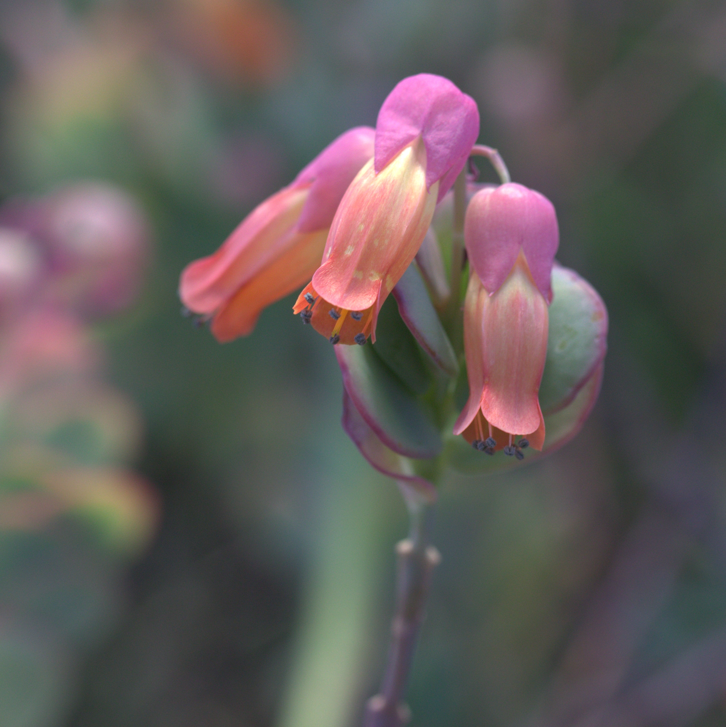 Kalanchoe marnieriana at Gothenburg Botanical Garden in 2015. Plant id: 1988-V0354 p G